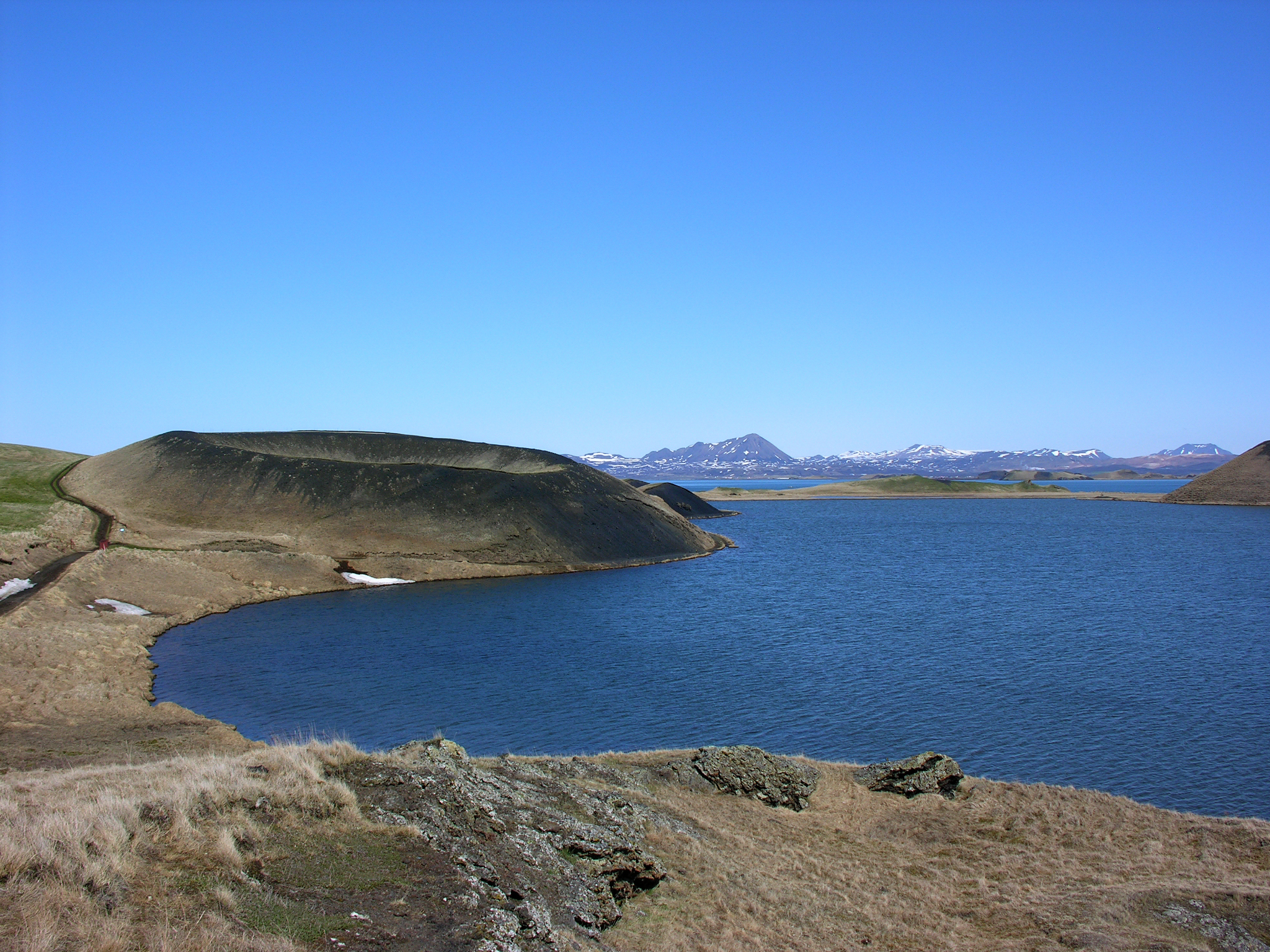 Iceland, pseudocrater in Mývatn in Northern Iceland